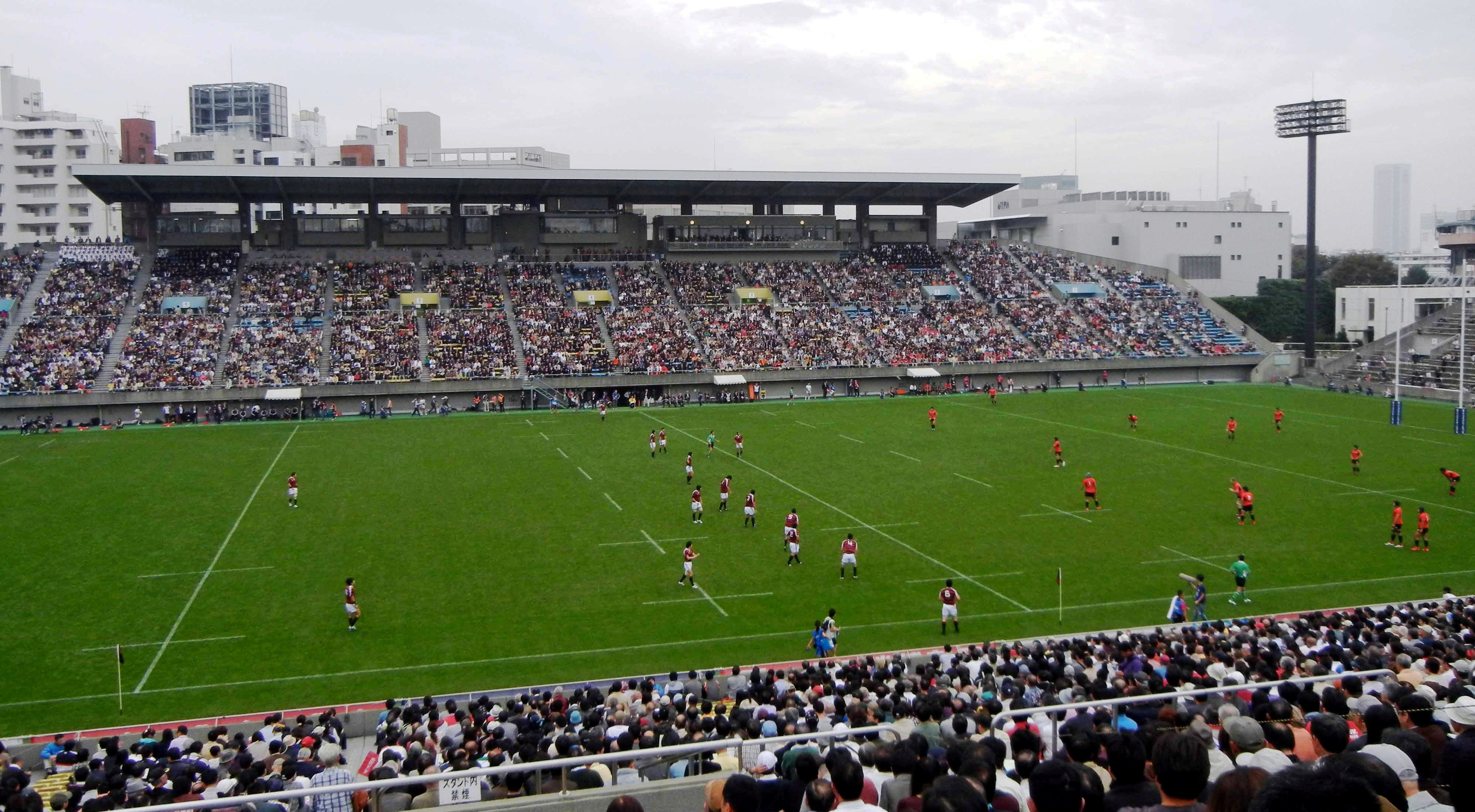 Teikyo University vs Waseda University